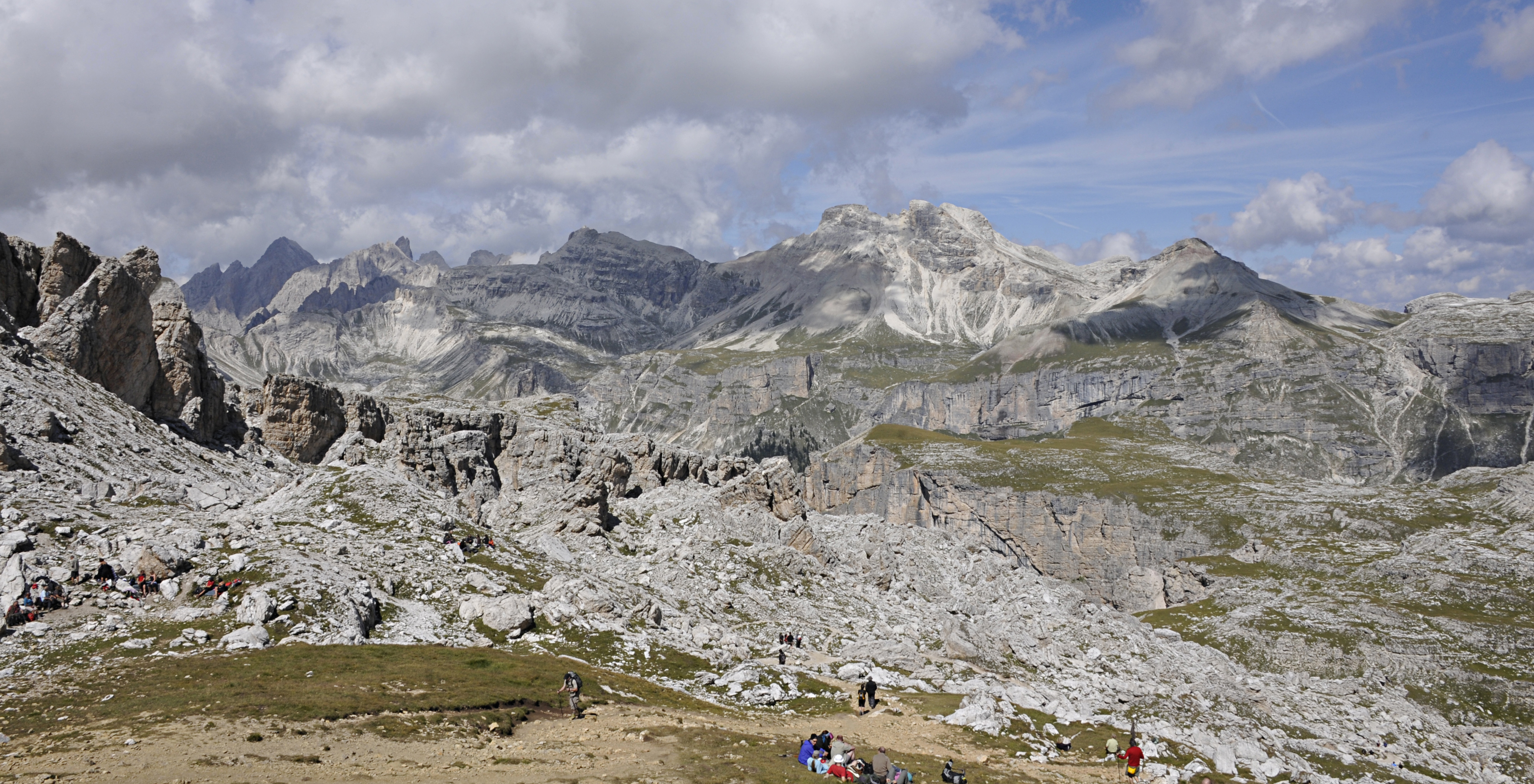 The Puez peaks in Gröden